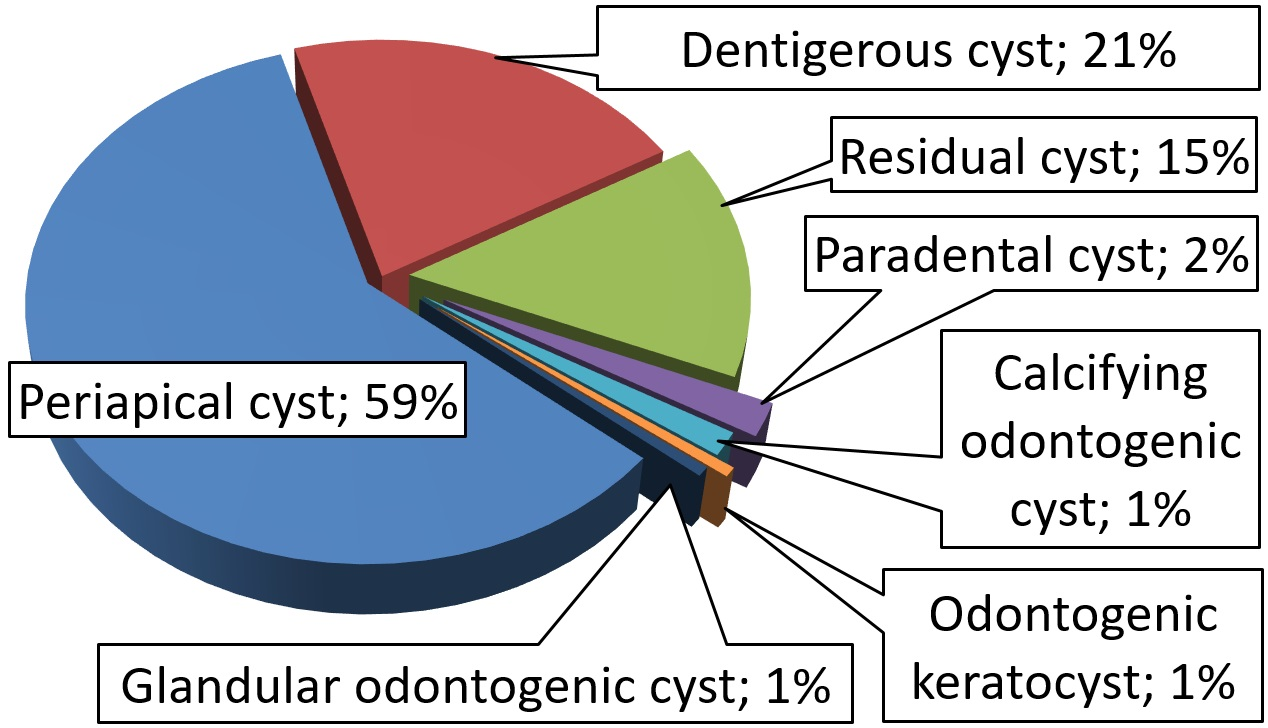 Relative incidence of odontogenic cysts in Brazil. Reference: Leandro Bezerra Borges; Francisco Vagnaldo Fechine; Mário Rogério Lima Mota; Fabrício Bitu Sousa; Ana Paula Negreiros Nunes Alves (2012). "Odontogenic lesions of the jaw: a clinical-pathological study of 461 cases.". Revista Gaúcha de Odontologia 60 (1).